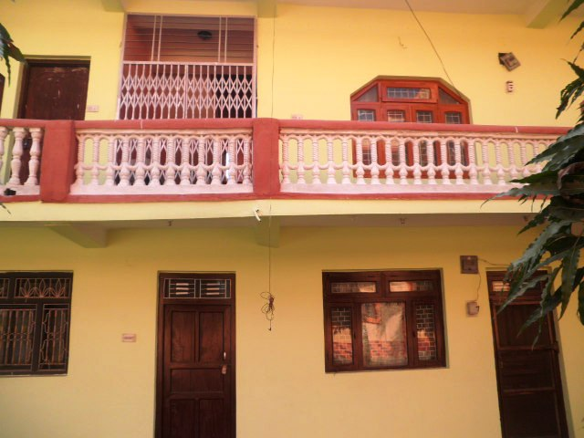 Mandir Side Building